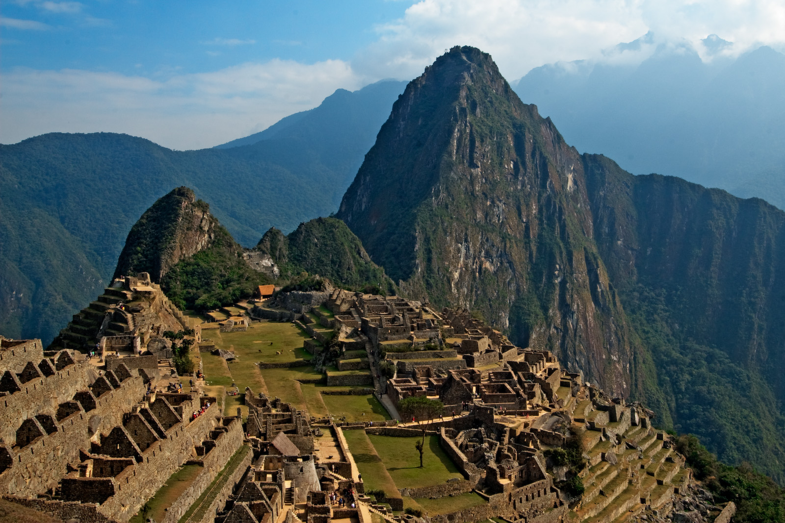 The traditional Machu Picchu view. Peru.